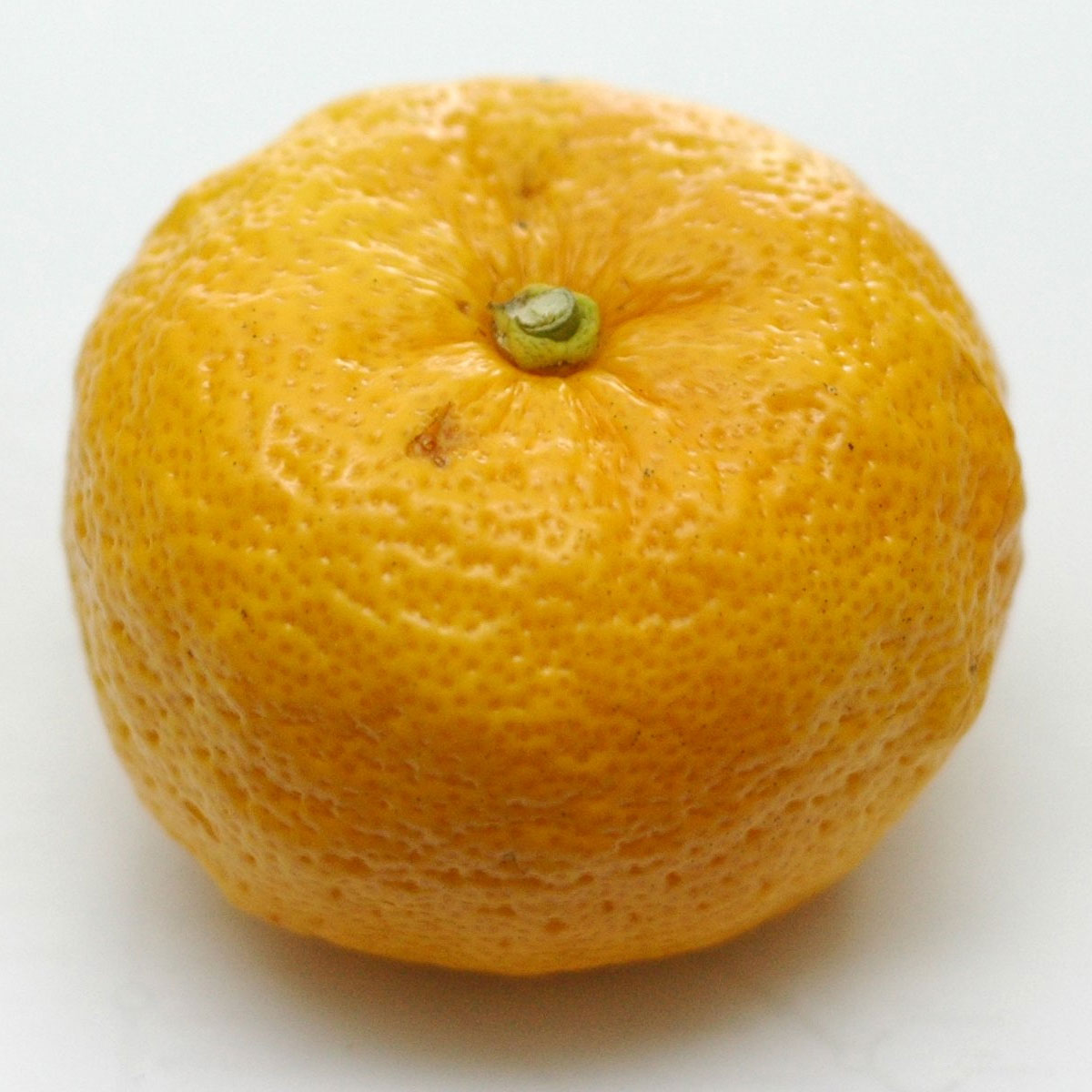 A large ripe Japanese Yuzu hybrid citrus fruit.